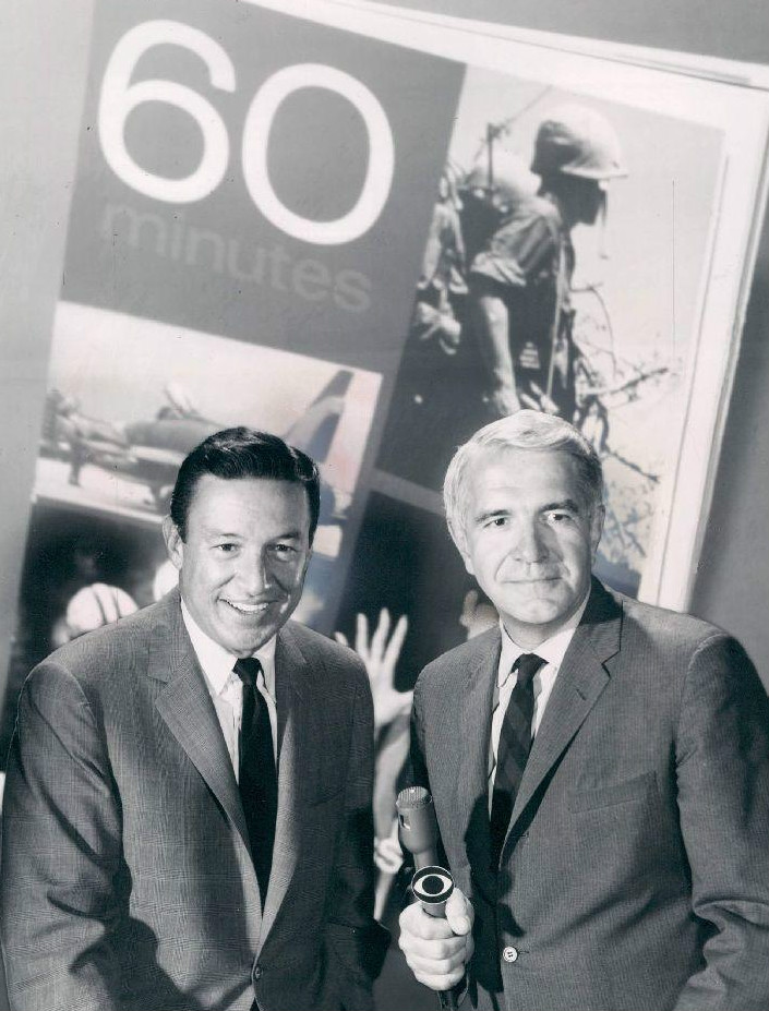 Publicity photo of Mike Wallace and Harry Reasoner from the premiere of 60 Minutes.